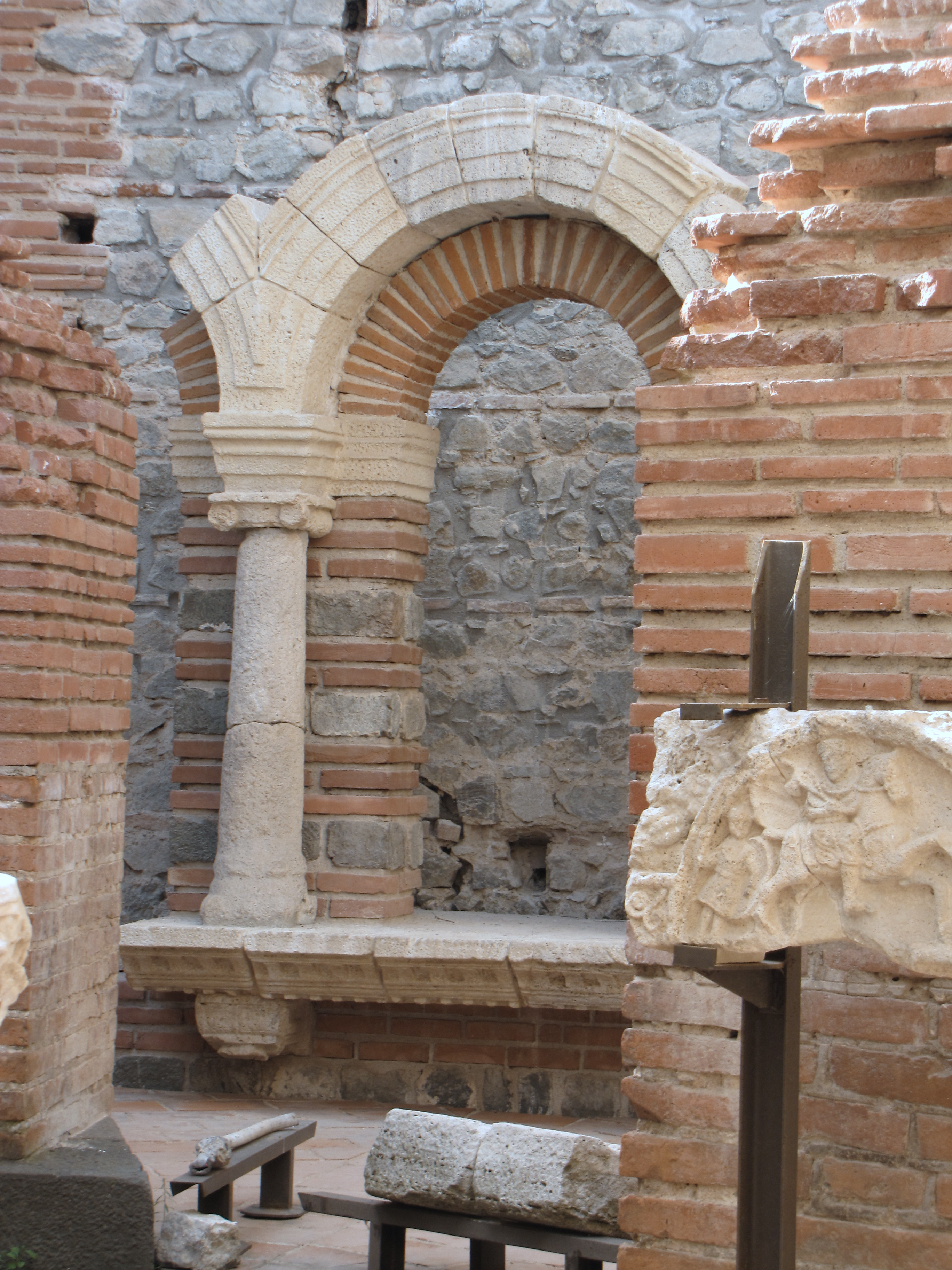 AWIB-ISAW: Artifacts at Felix Romuliana (VIII) A stone and marble archway in the collection at Felix Romuliana, a palace built by the emperor Galerius in modern-day Serbia. photographed place: Felix Romuliana (Gamzigrad) [1] Published by the Institute for the Study of the Ancient World as part of the Ancient World Image Bank (AWIB). Further information: [2]. Reconstitution d'un élément de colonnade de la seconde galerie de la porte occidentale